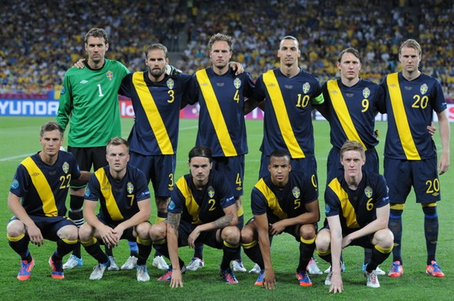 UEFA Euro 2012 match between Ukraine and Sweden that took place in Kiev. Final result was 2:1 (2xShevchenko - Ibrahimović)